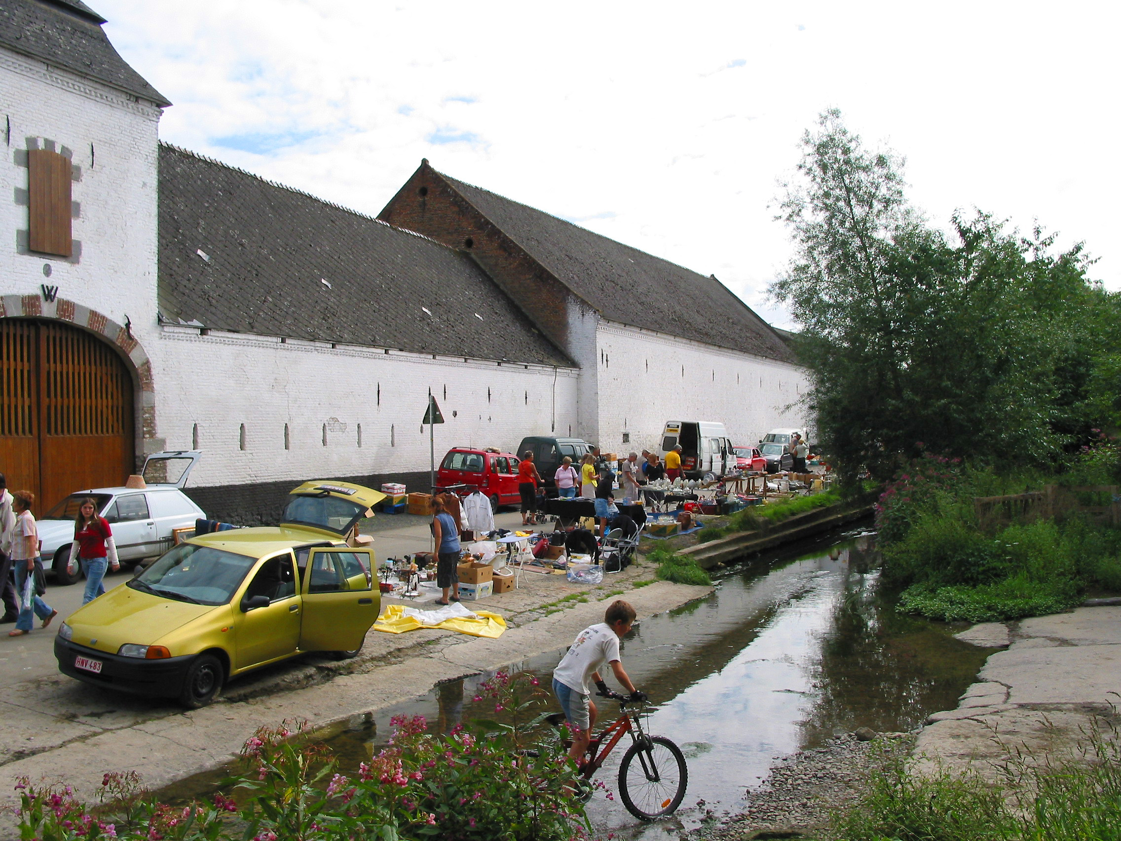 Estinnes-au-Val (Belgium), rue Rivière, 82 - The Willliot Farm (XVIIIth century) and the ford on the Estinnes brook.